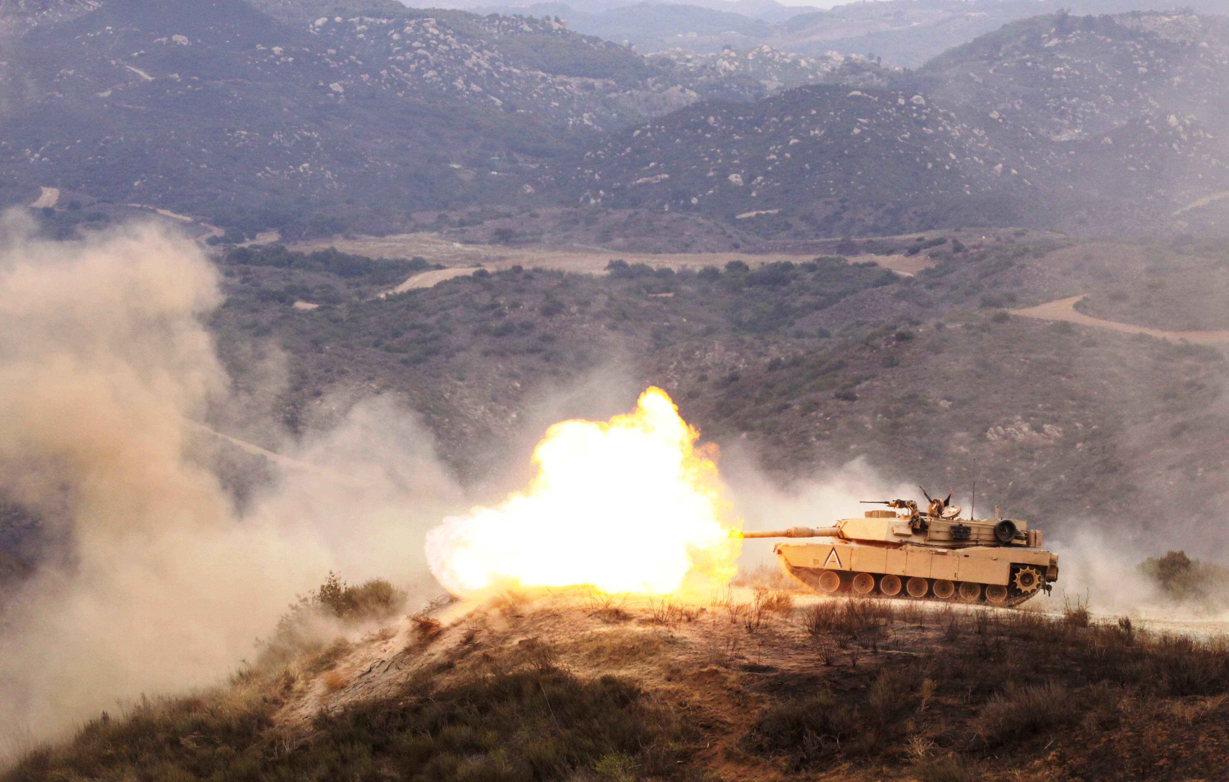 An M1 Abrams tank fires at a target more than 1,000 meters away during 4th Tank Battalion, 4th Marine Division annual qualification training, June 11. Instead of qualifying annually with M-16 rifle, tankers are required to qualify with their mobile weapons of destruction.